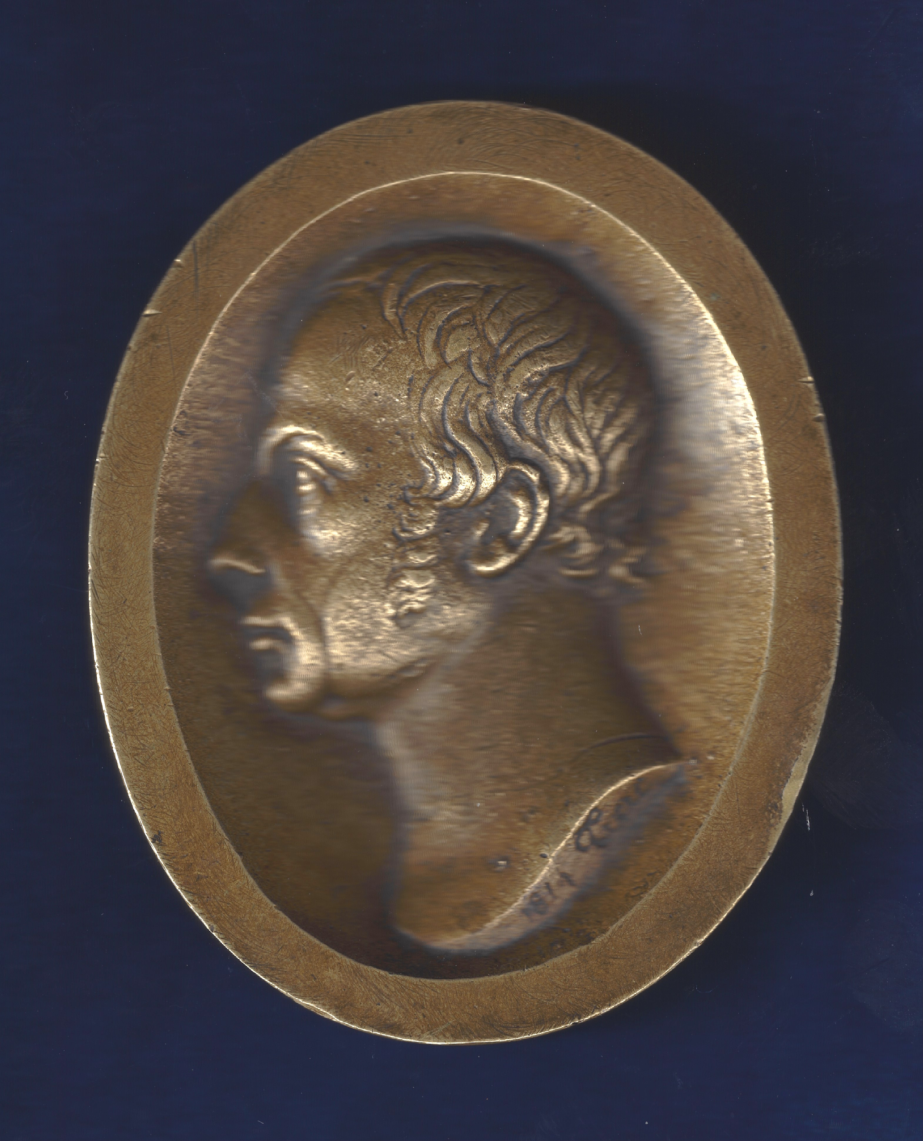 Uniface oval cast medallion 54 x 68 mm. Francis II, Holy Roman Emperor 1792-1806; Emperor of Austria 1804-1834; King of Hungary and Croatia, King of Bohemia, King of Lombardy–Venetia 1792-1835 Head l. Julius -; Forrer VIII, p- 240. This portrait medal of the wars of liberation was modelled on the occasion of the passage of the 3 monarchs Alexander I of Russia, Francis II, and Frederick William III of Prussia over the Basel Rhine bridge on 13 January 1814 by the medallist: Philipp Jakob Treu, 1761 Basel - 1825 Basel, Switzerland Condition: VERY FINE.